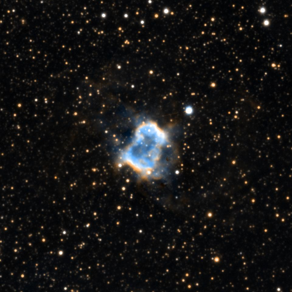 Color image of NGC 6445 created by the stacking of r and g filter images provided by PanSTARRS-1 archive.